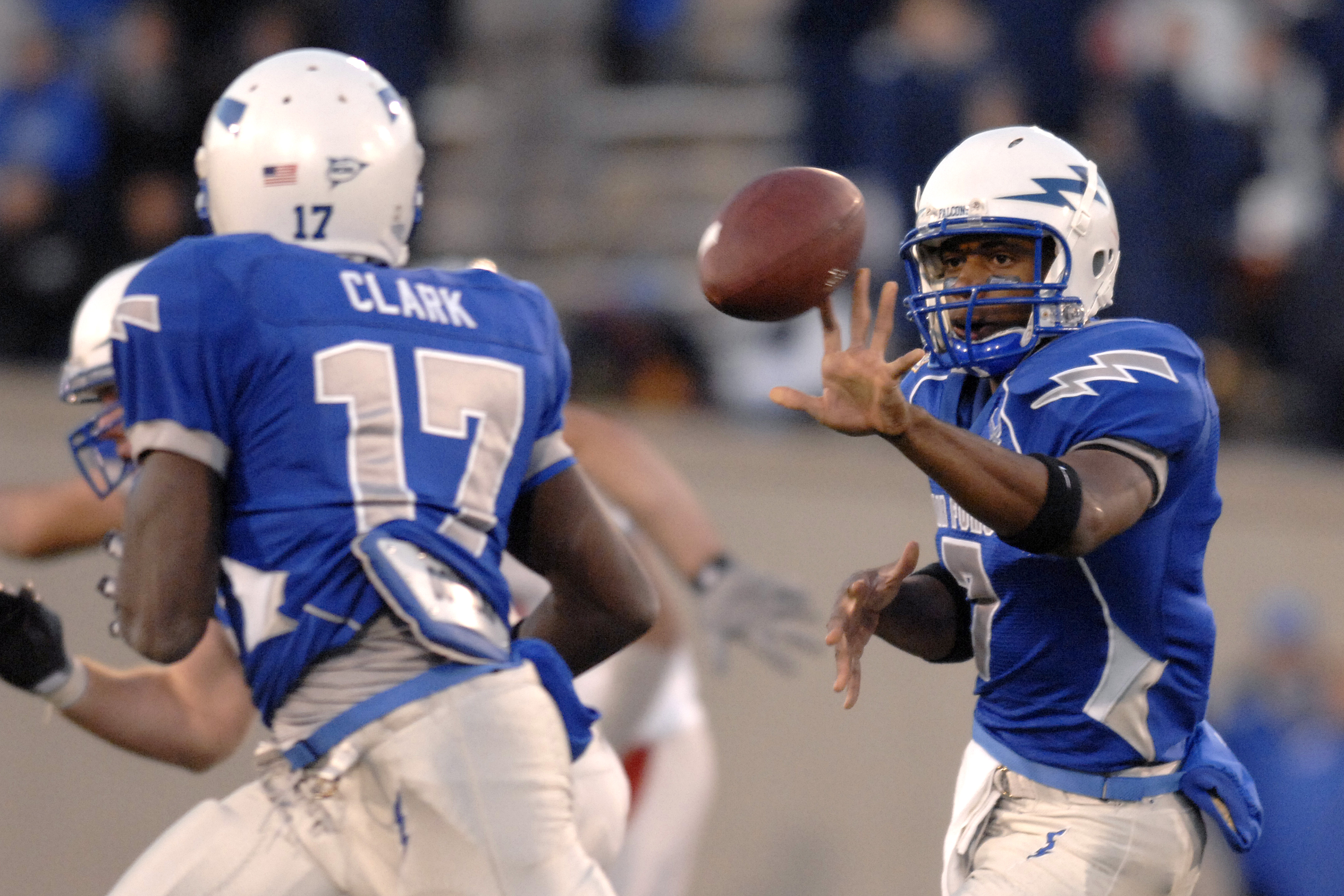 U.S. Air Force Academy freshman quarterback Tim Jefferson options to freshman tailback Asher Clark. The Falcons' option rushing attack ground out 227 yards in a 23-10 win over University of New Mexico Oct. 23 at Falcon Stadium in Colorado.